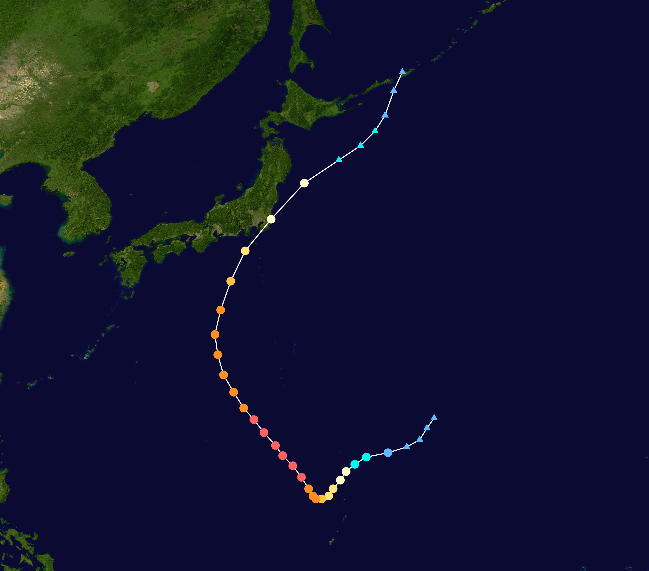 Track map of Typhoon Violet of the 1961 Pacific typhoon season. The points show the location of the storm at 6-hour intervals. The colour represents the storm's maximum sustained wind speeds as classified in the Saffir–Simpson scale (see below), and the shape of the data points represent the nature of the storm, according to the legend below. Saffir–Simpson scale Tropical depression≤38 mph≤62 km/h Category 3111–129 mph178–208 km/h Tropical storm39–73 mph63–118 km/h Category 4130–156 mph209–251 km/h Category 174–95 mph119–153 km/h Category 5≥157 mph≥252 km/h Category 296–110 mph154–177 km/h Unknown Storm type Tropical cyclone Subtropical cyclone Extratropical cyclone / Remnant low / Tropical disturbance / Monsoon depression